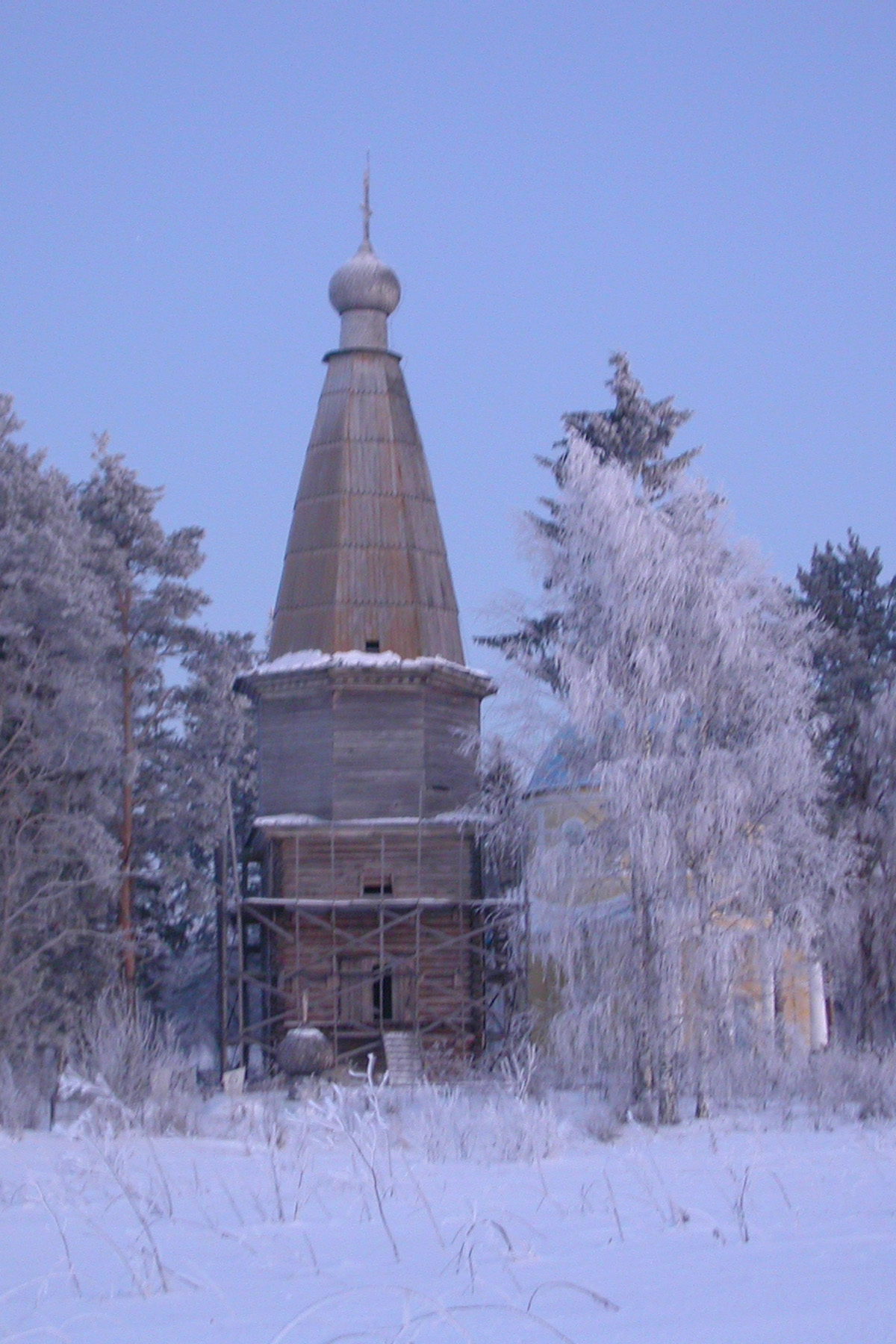 Kargopol (Russia)